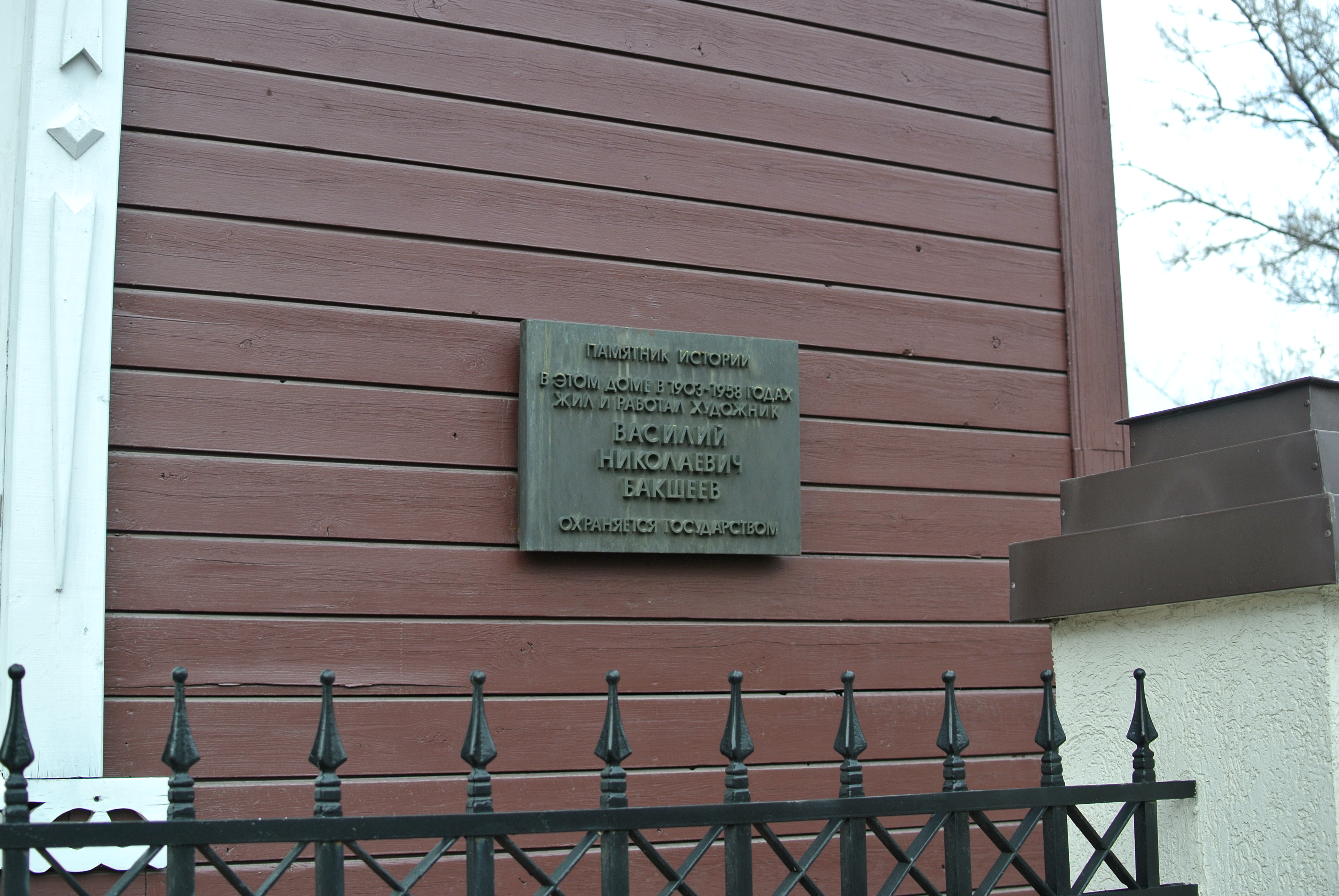 Memorial plaque on the wall of Baksheev's house in Moscow